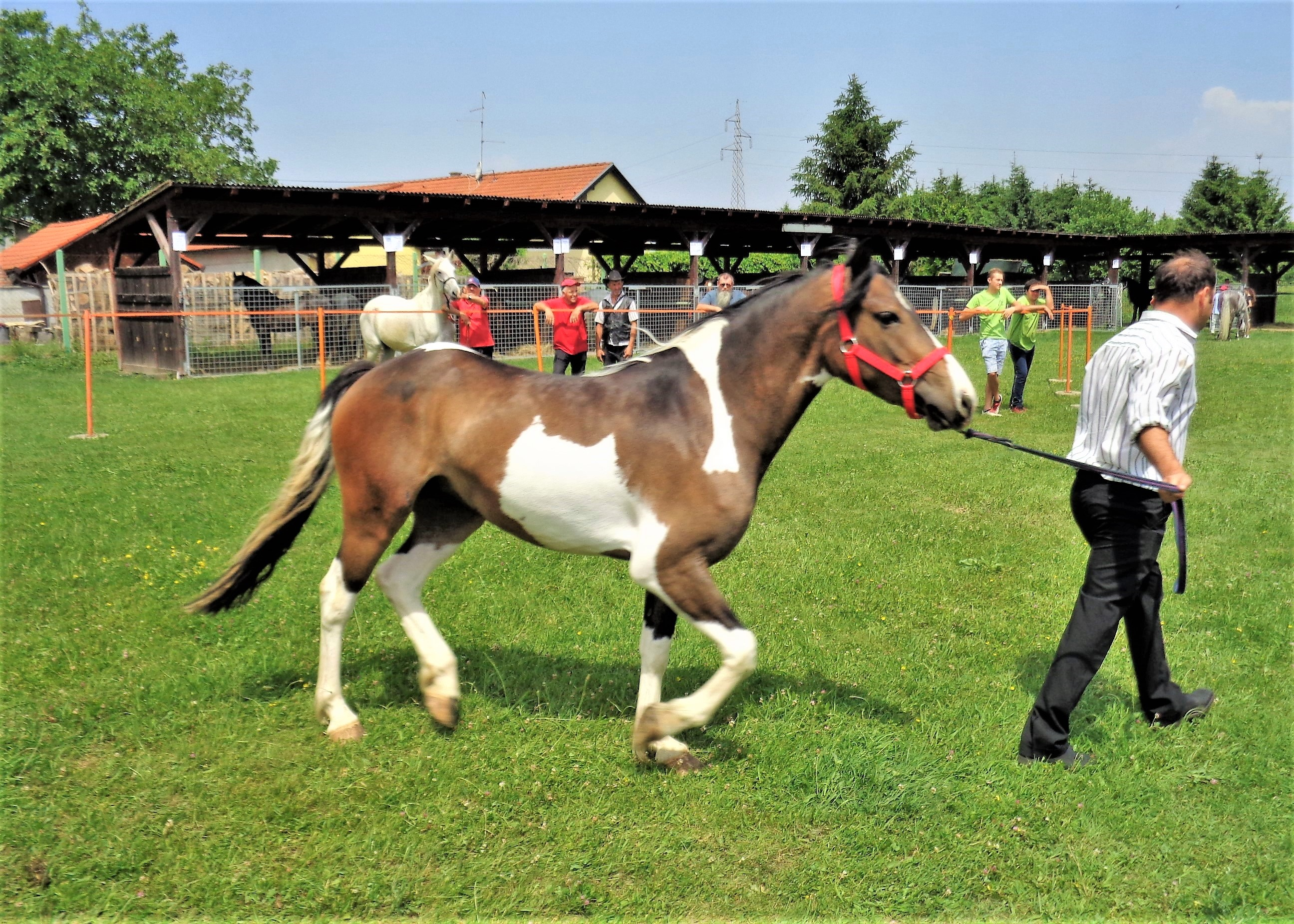 Croatian Warmblood, horse breed of Croatia, at 2019 MESAP Trade Fair in Nedelišće, Medjimurie County, Croatia - spotted bay coloured